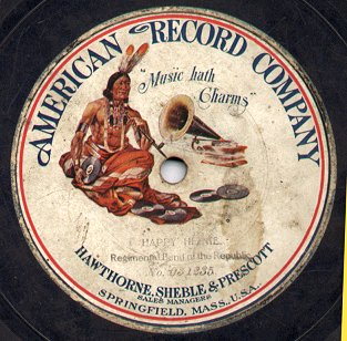 Label of an "American Record Company" disc record, first decade of the 20th century. Recorded title "Happy Heinie".